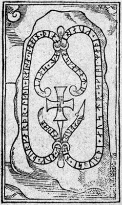 Drawing of runestone U439